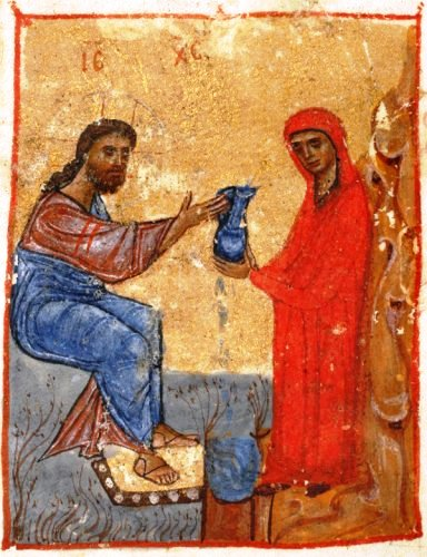 Jesus and the Samaritan woman. A miniature from the 12th-century Jruchi Gospels II MSS from Georgia.